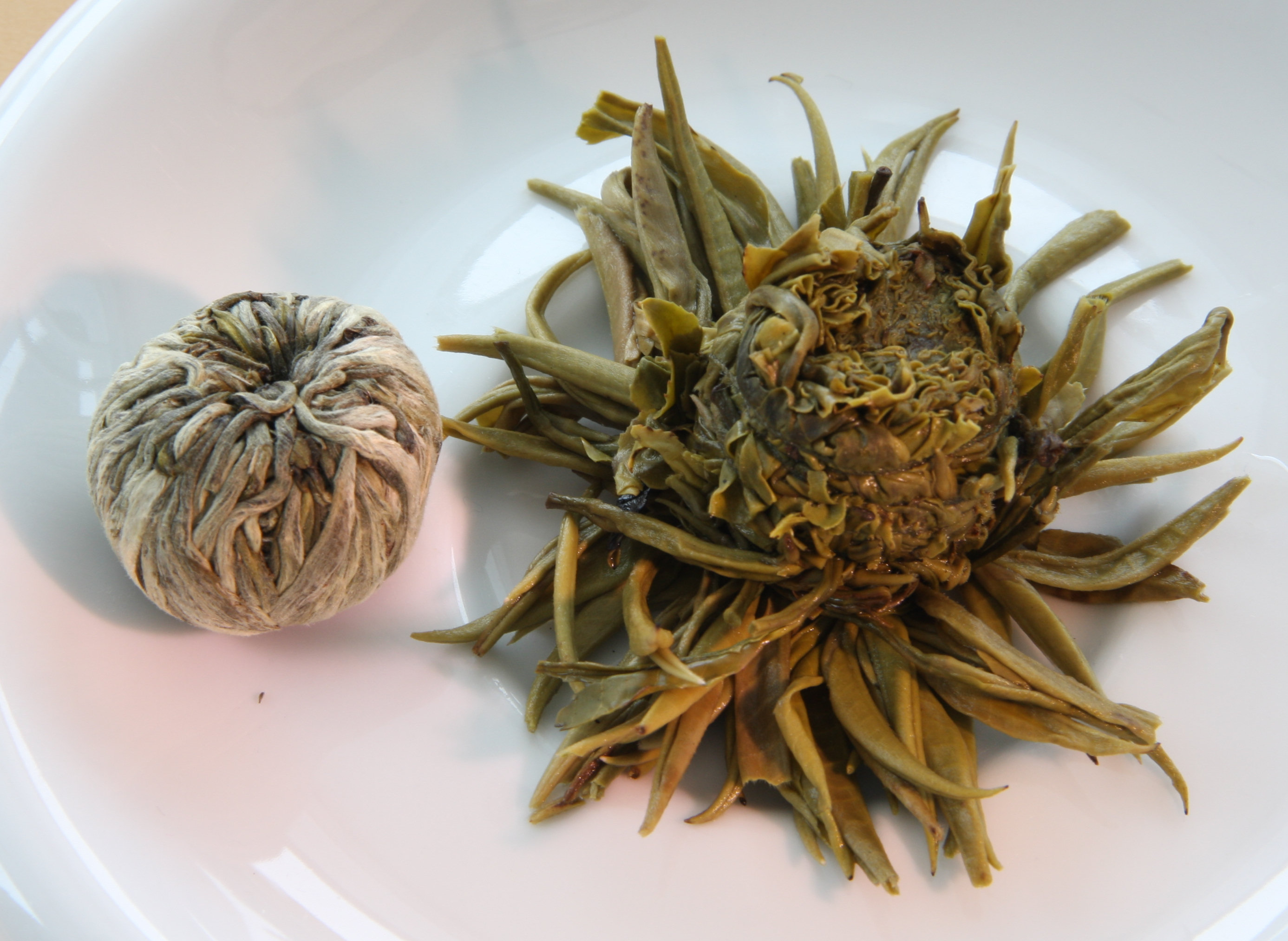 Tea flower from white tea "Exotic Flame" before and after infusion